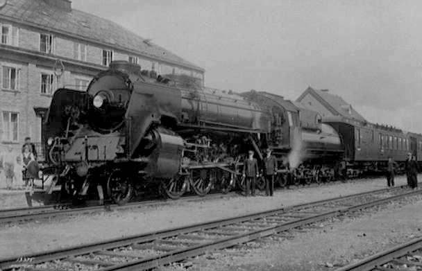 Norges Statsbaner type 49a "Dovregubben" steam locomotive at Oppdal station, Dovrebanen, Norway.